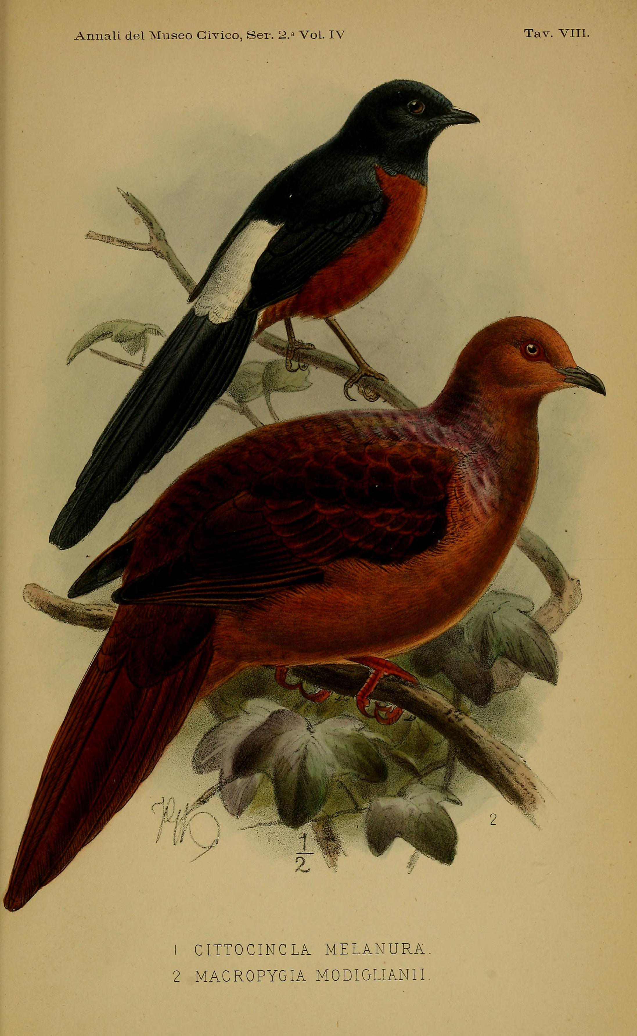 Title: Annali del Museo civico di storia naturale di Genova Year: 1870 (1870s) Authors: Museo civico di storia naturale di Genova (Italy) Subjects: Natural history Publisher: Genova : Tip. del R. Istituto Sordo-Muti Text Appearing Before Image: Annali del Museo Civico, Ser. 2.-^ Voi. IV Tav. Vili. 'Text Appearing After Image: CITTOCINCLIA MELANURA MACROPYGIA MODIGLIANII.